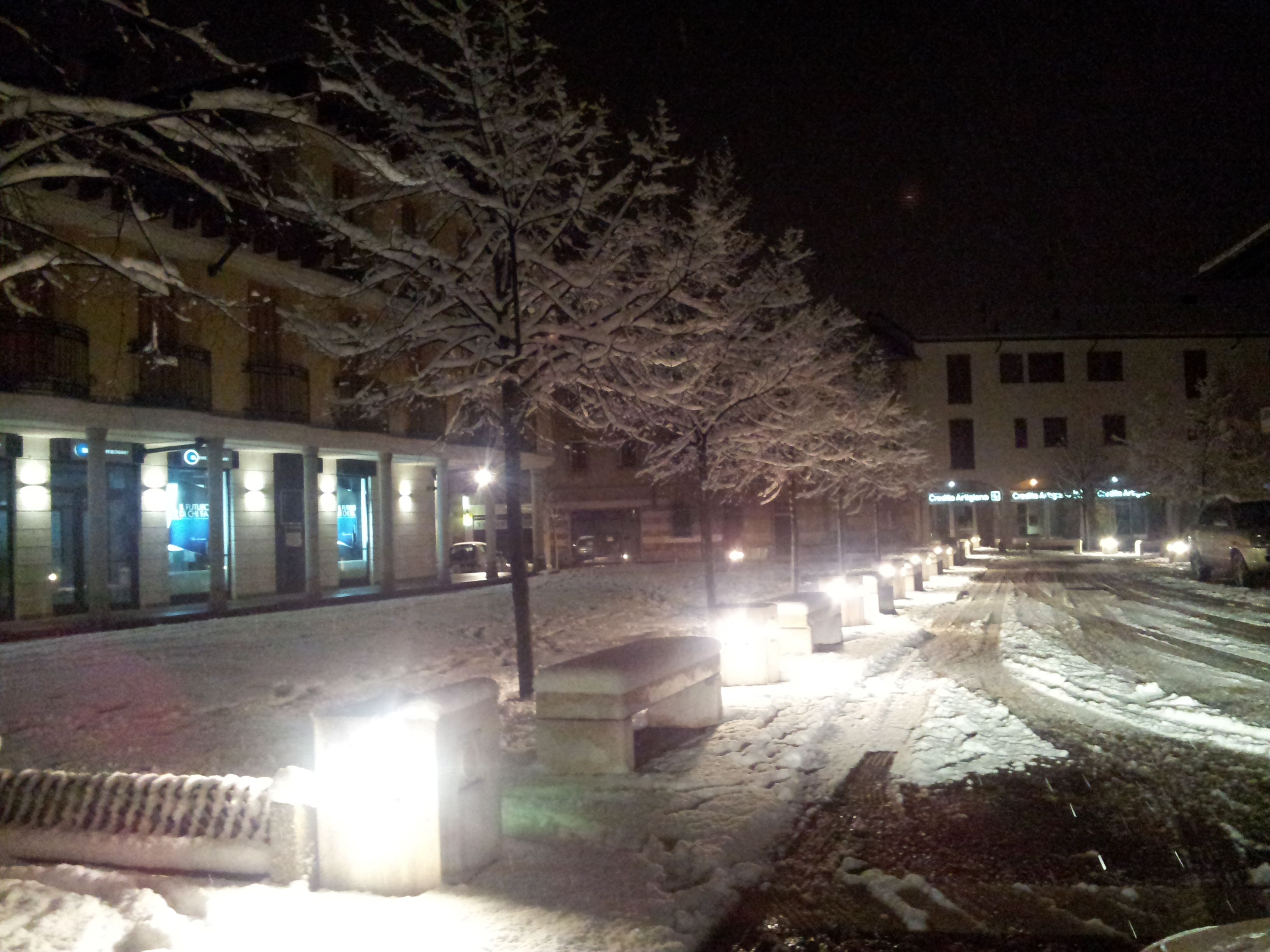 Matteotti square in Canegrate covered by snow on February 2013